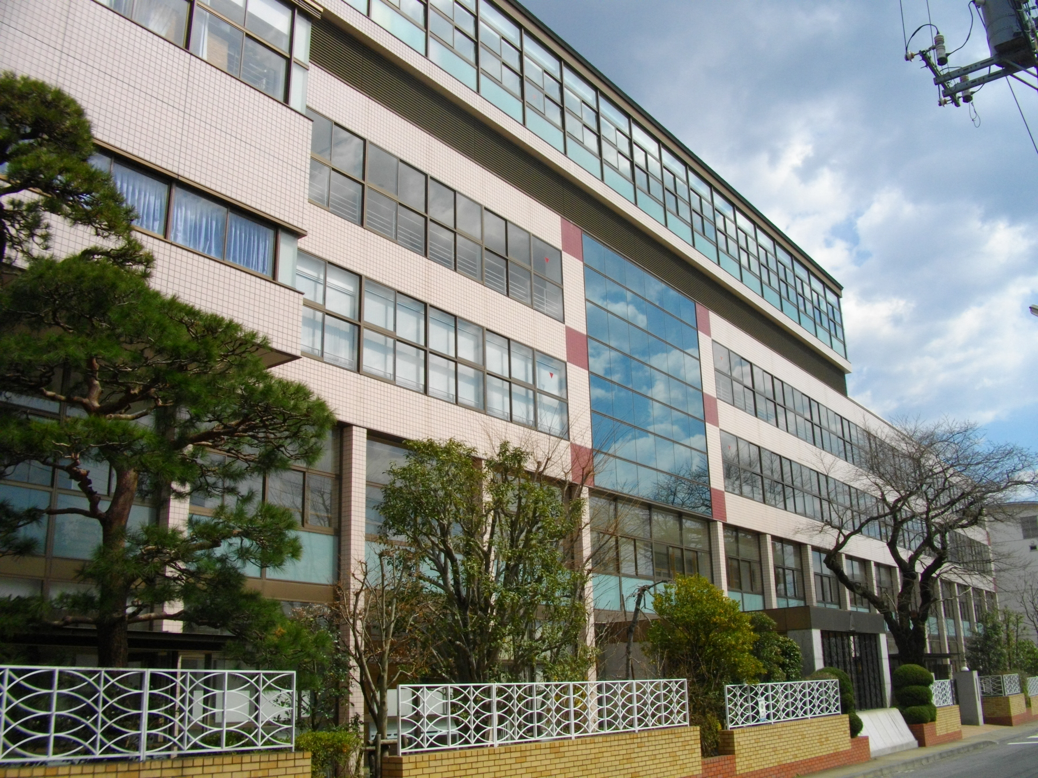 Tokiwa University High School